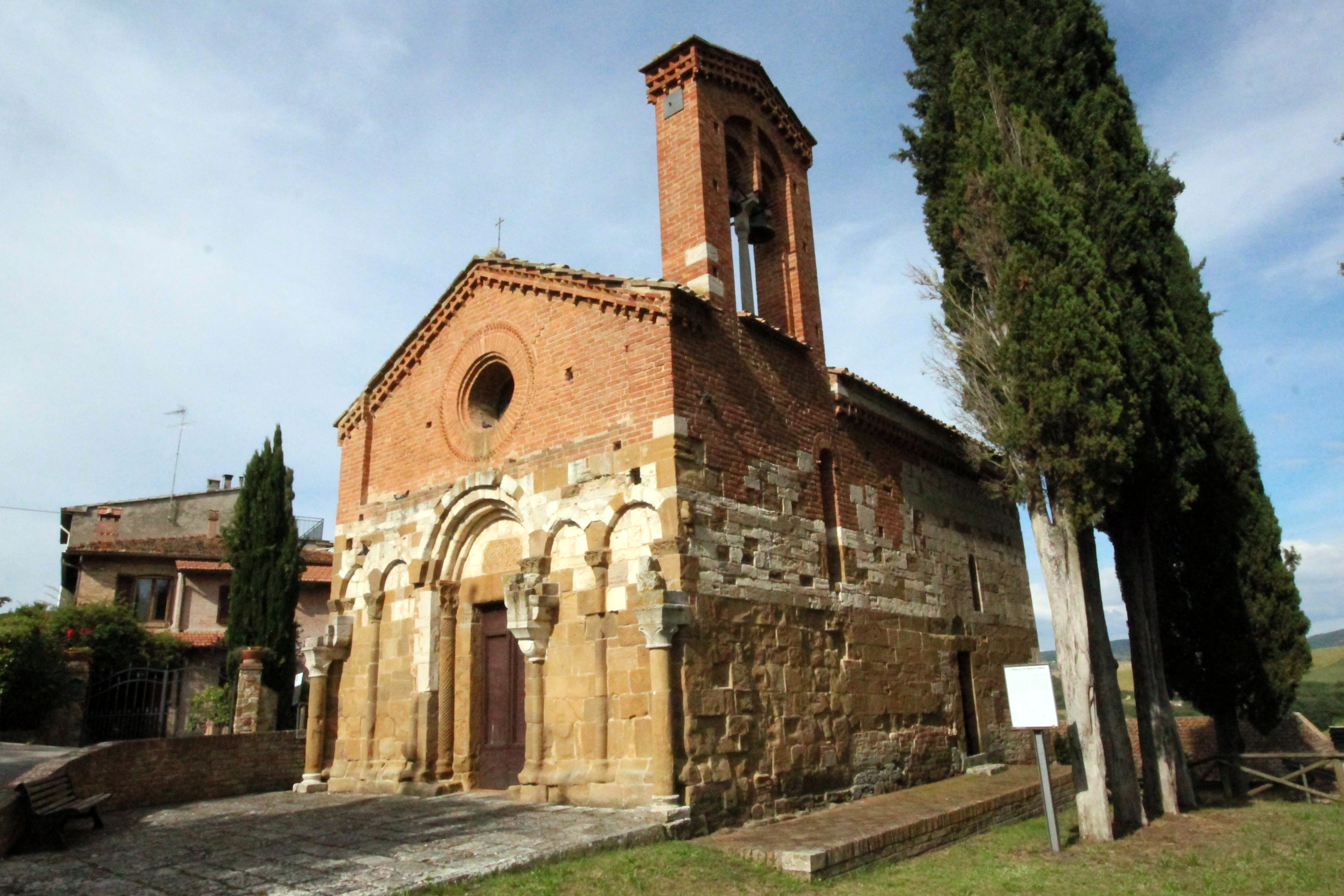 Church San Pietro in Villore in San Giovanni d’Asso, Crete Senesi, Province of Siena, Tuscany, Italy